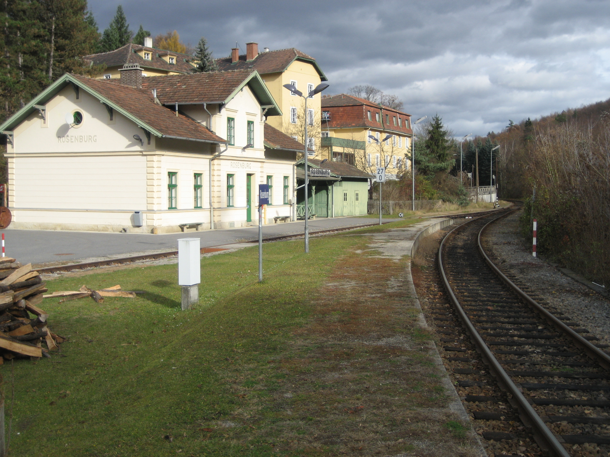 Rosenburg train station in Lower Austria